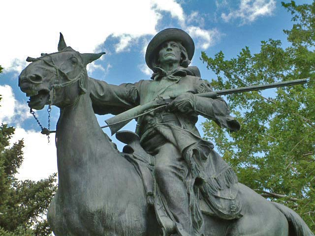 Equestrian statue being the Kit Carson Monument in Trinidad, Colorado (Lukeman created the figure of Carson while sculptor Frederick Roth executed the horse)